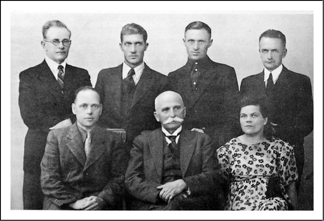 Graduation Photograph of the Landscape Master Class at the Latvian Art Academy, 1942. Master Class Graduates at the Latvian Art Academy, 1942. Mārtiņš Krūmiņš is seated first on left. Seated in the middle is Professor Vilhelms Purvītis